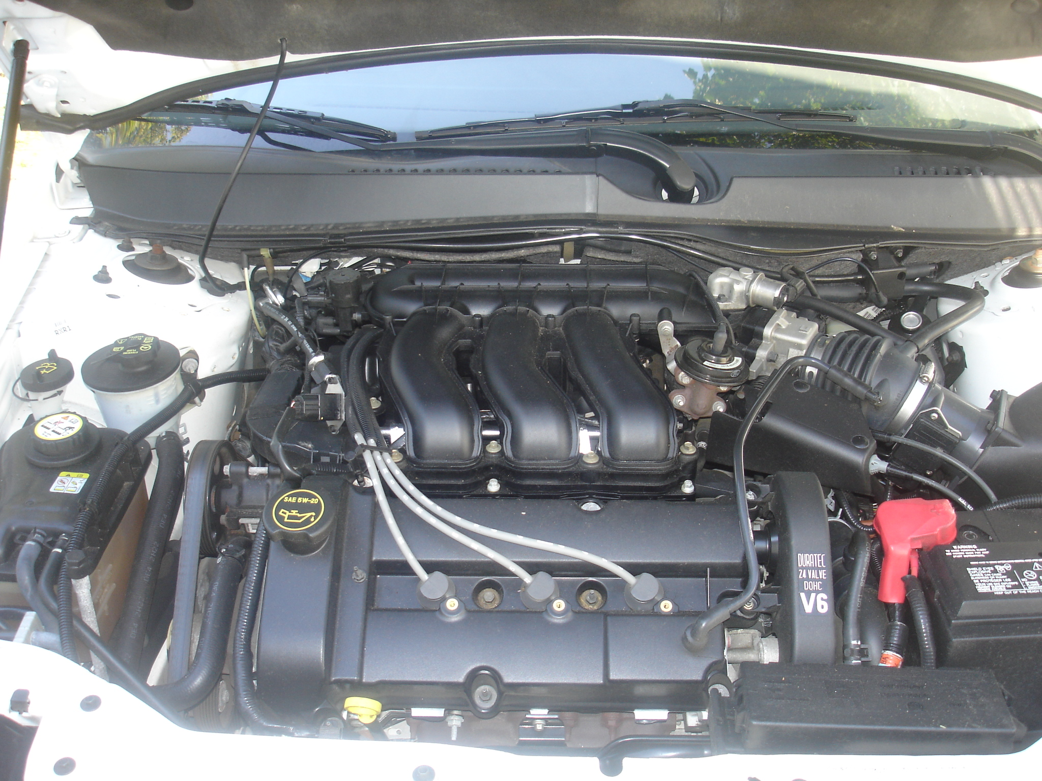 The Duratec 30 engine in the Mercury Sable. i took this image myself.